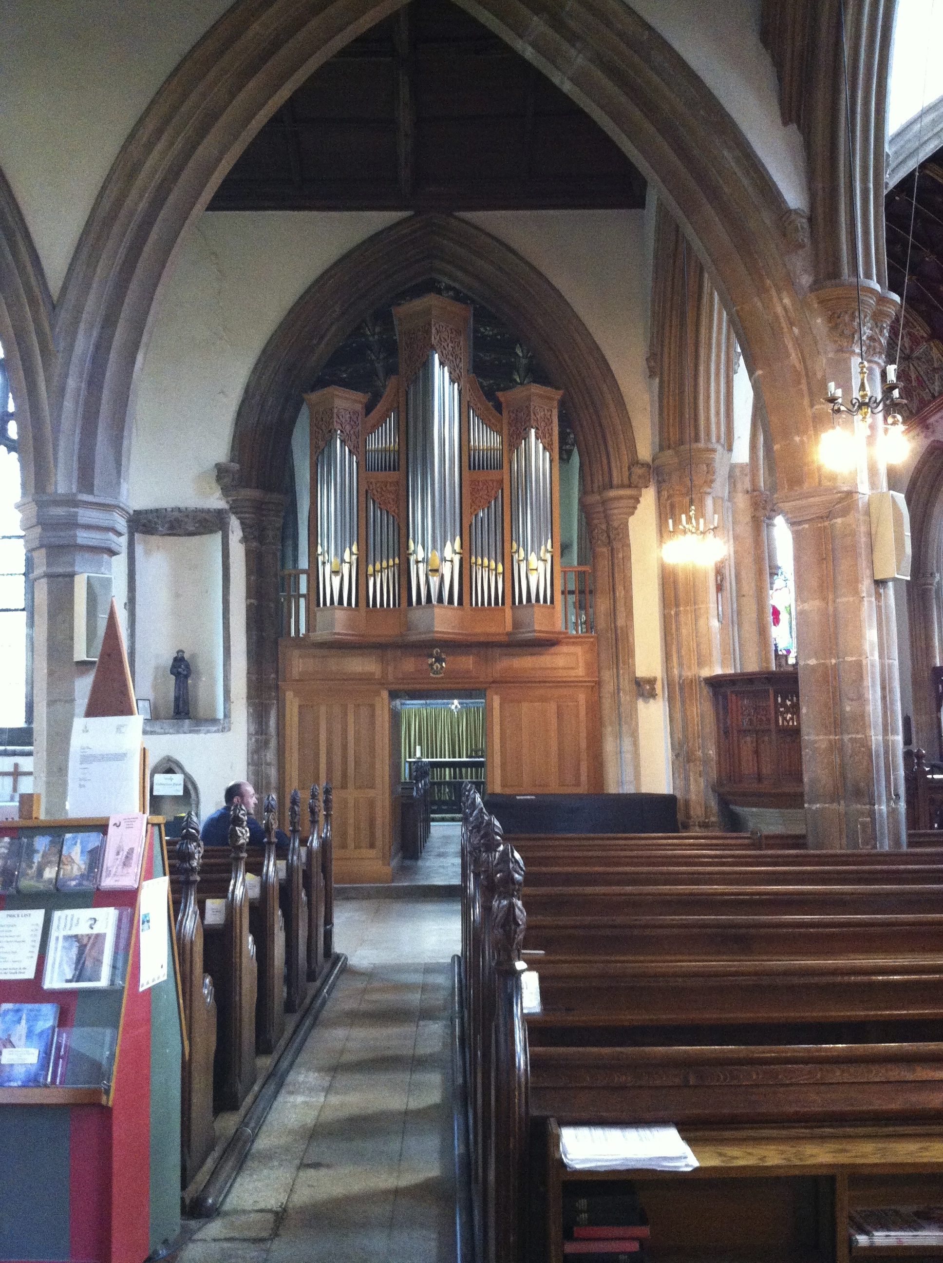 Organ in All Saints' Church, Oakham